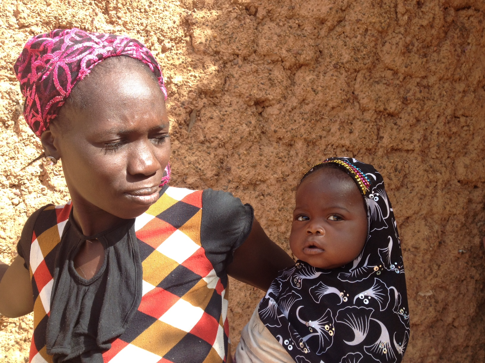 Saeadogo Lisamata (femme) et Diabate Baleguisa (bebé)